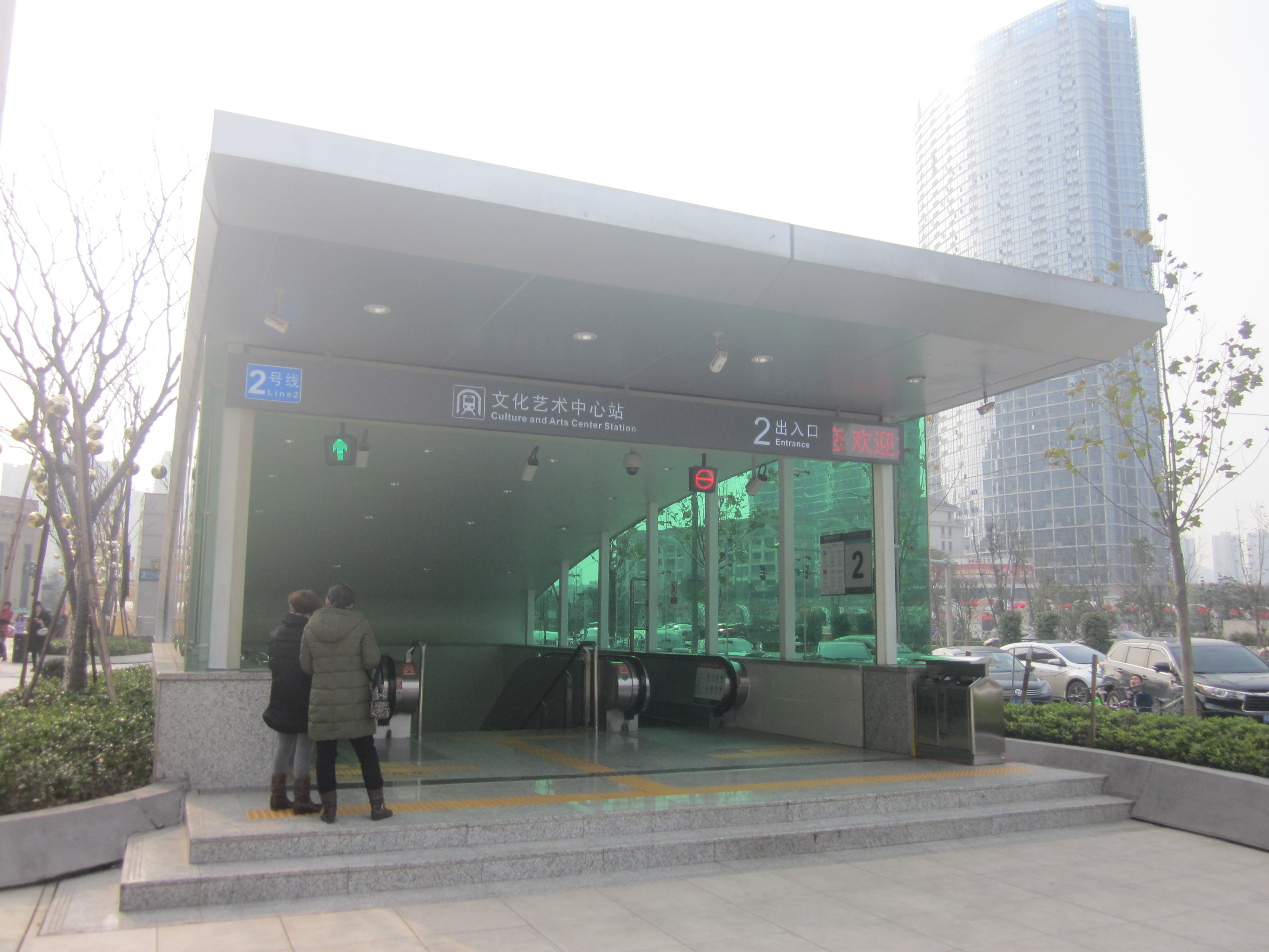 Entrance No. 2 of the Culture and Arts Center Station.